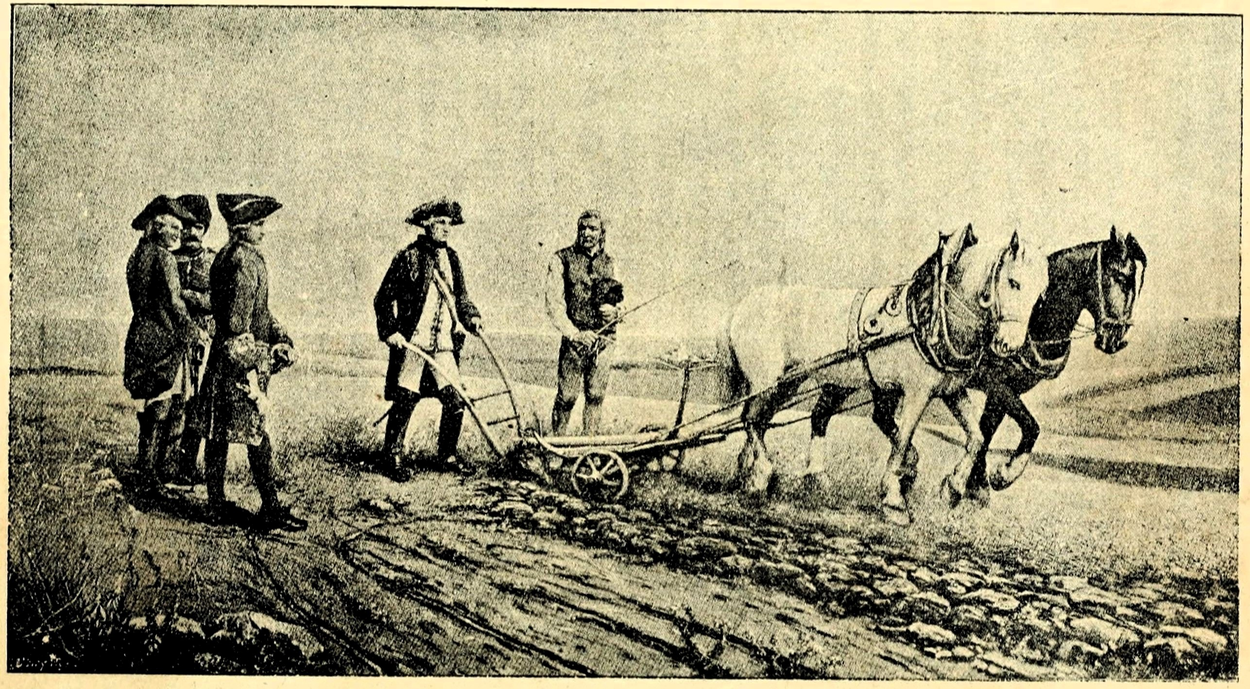 Joseph II is plowing in Slavikovice (1769)